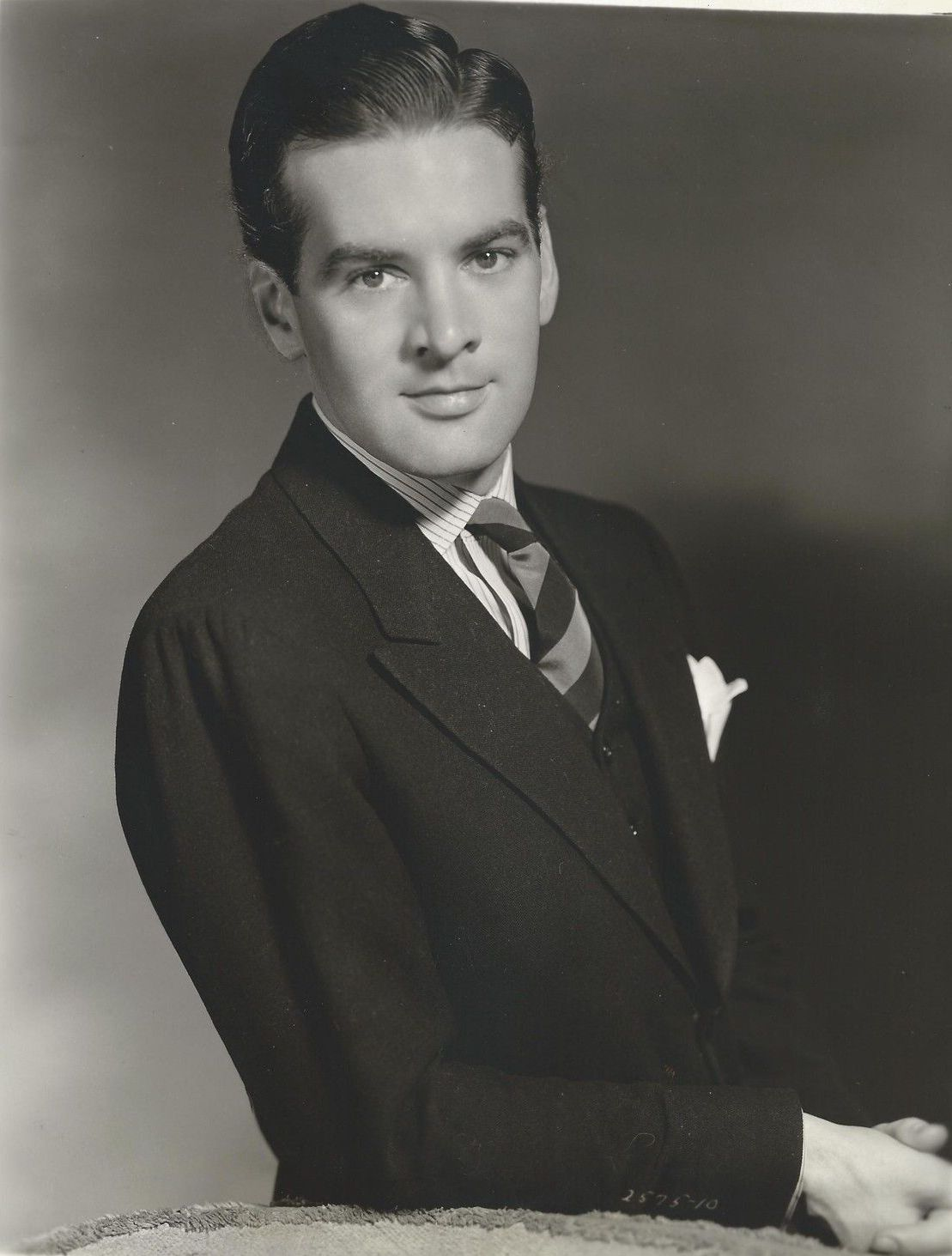 Publicity photo of Ray Heatherton